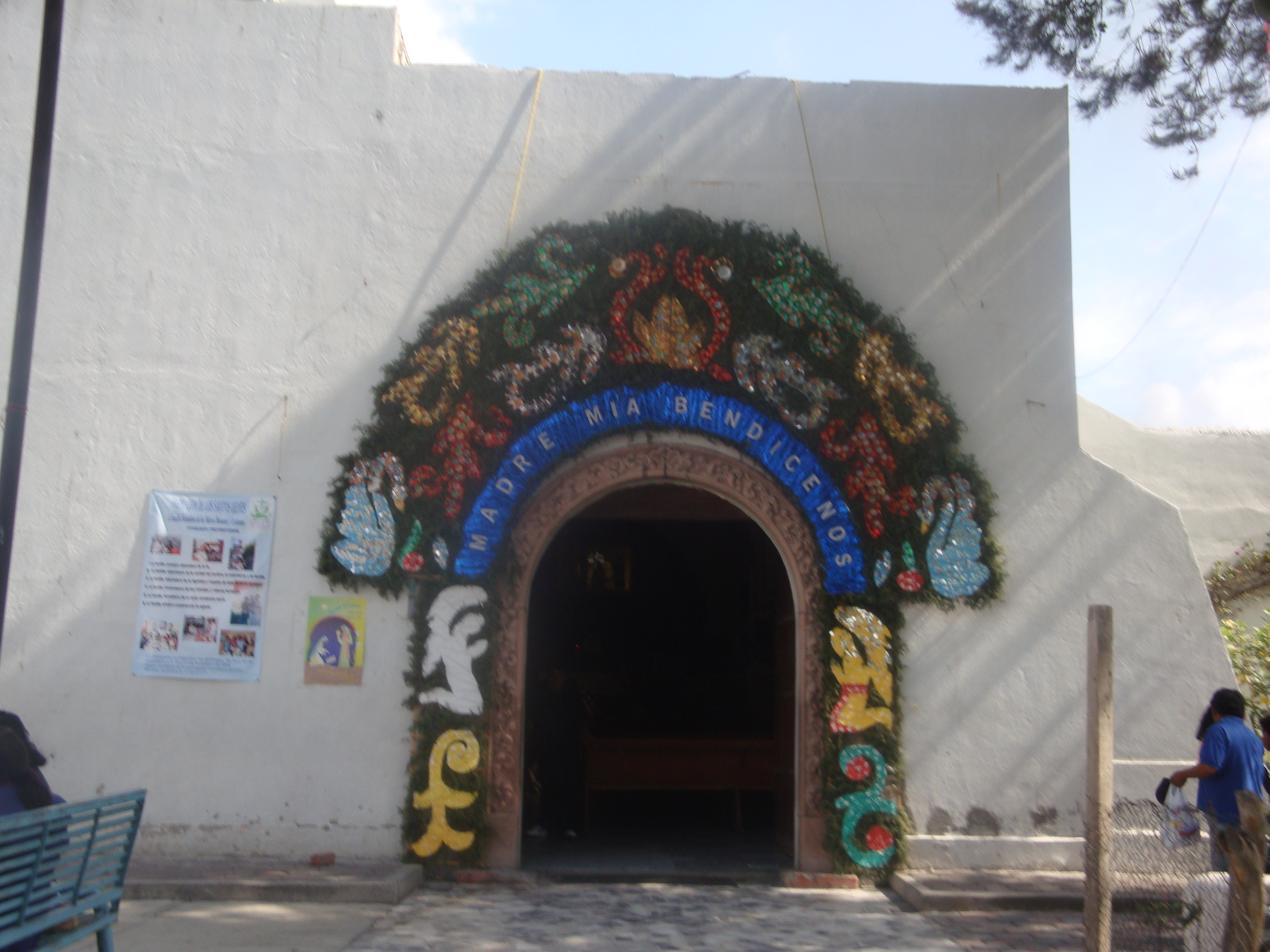 Old Church of Holy Kings, La Paz, Mexico State